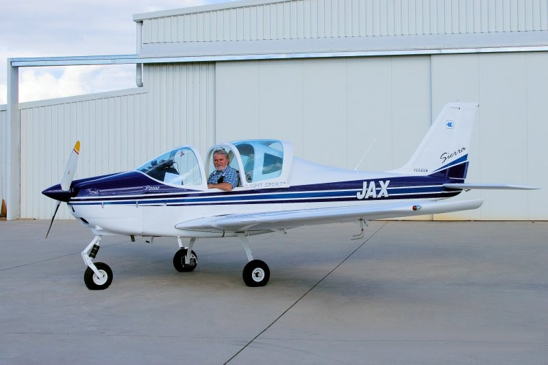 Tecnam P2002 Sierra